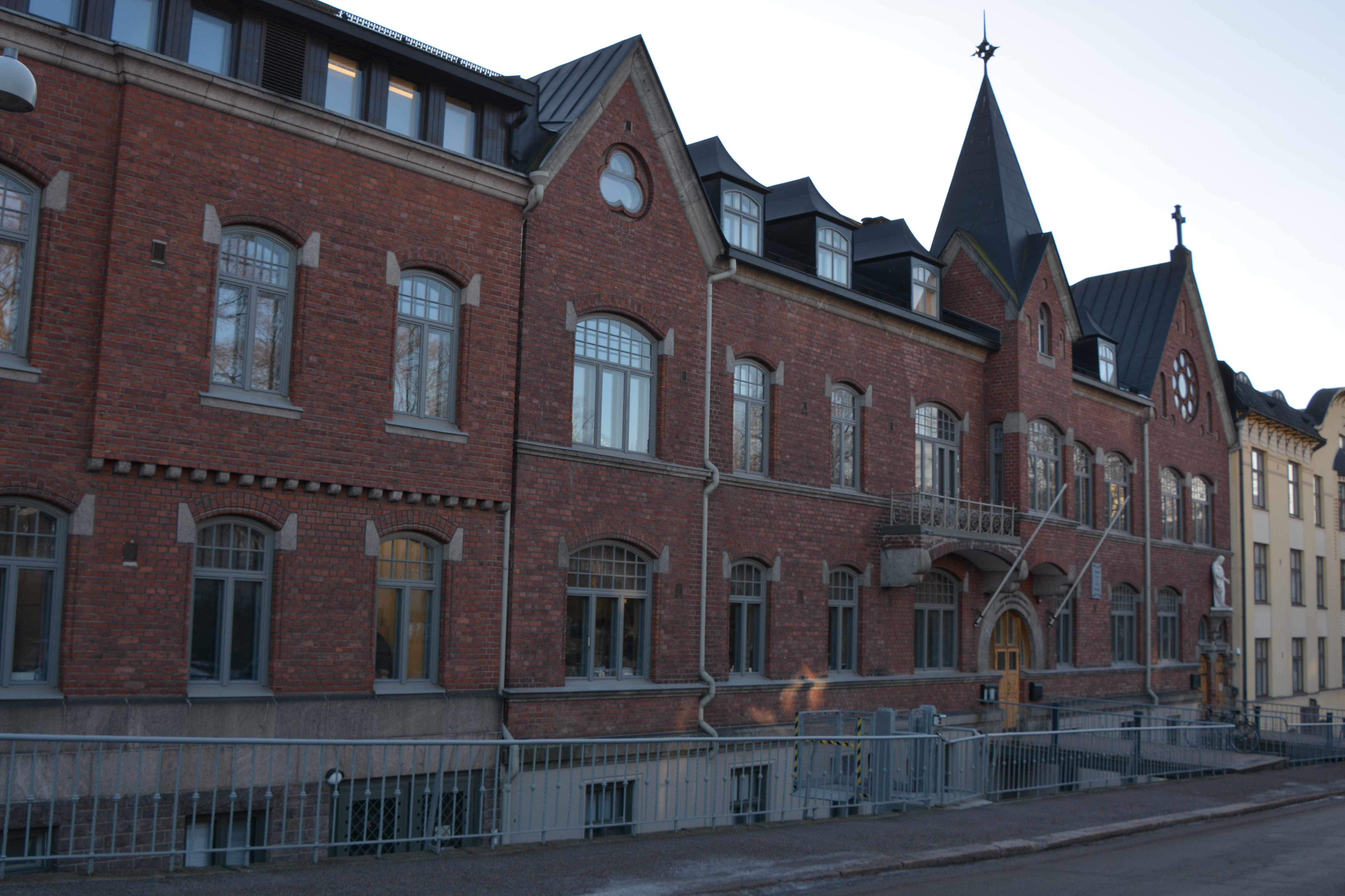 Finska missionssällskapet, Observatoriegatan, Helsingfors